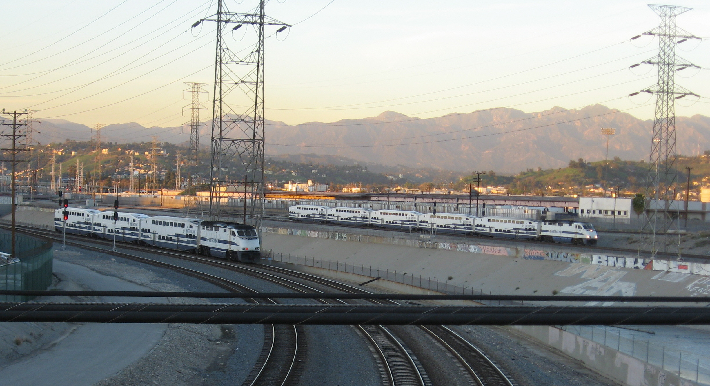 Metrolink train 406 departing from (right) and train 609 approaching (left) Union Station, Los Angeles, at evening rush hour.